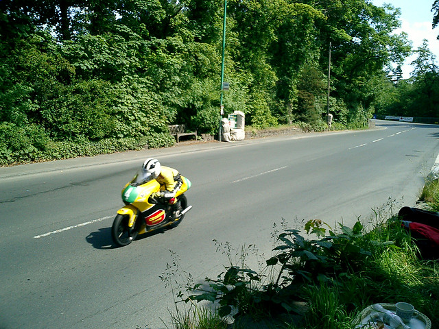 Robert Dunlop on his last lap at the Isle of Man TT 2004 before his retirement from TT racing.